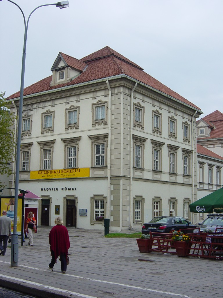 The Radvilos Palace (architect Jonas Ulrichas) was built at the end of the 17th century on the request of Jonusas Radvila (1612-1655), the chief of Samogitia, the hetman of Lithuania, and the voivode of Vilnius. We can see such palace on a medal forged by a German medallist Sebastian Dadler (1586-1657) in 1653 on the occasion of Jonusas Radvila?s inauguration as the vaivode of Vilnius. The palace was of three stores, with two stored galleries full of mannered décor and the Renaissance-like shapes. In the middle of the 17th century it was one of the most beautiful buildings in Vilnius. Unfortunately, it was devastated by the war with Russia in 1654, wars of the 18th century and also raging fires. At the beginning of the 19th century Dominykas Radvila (1786-1813) gave the ruined palace to Vilnius Philanthropy Society. In 1967 restoration of the Palace started.